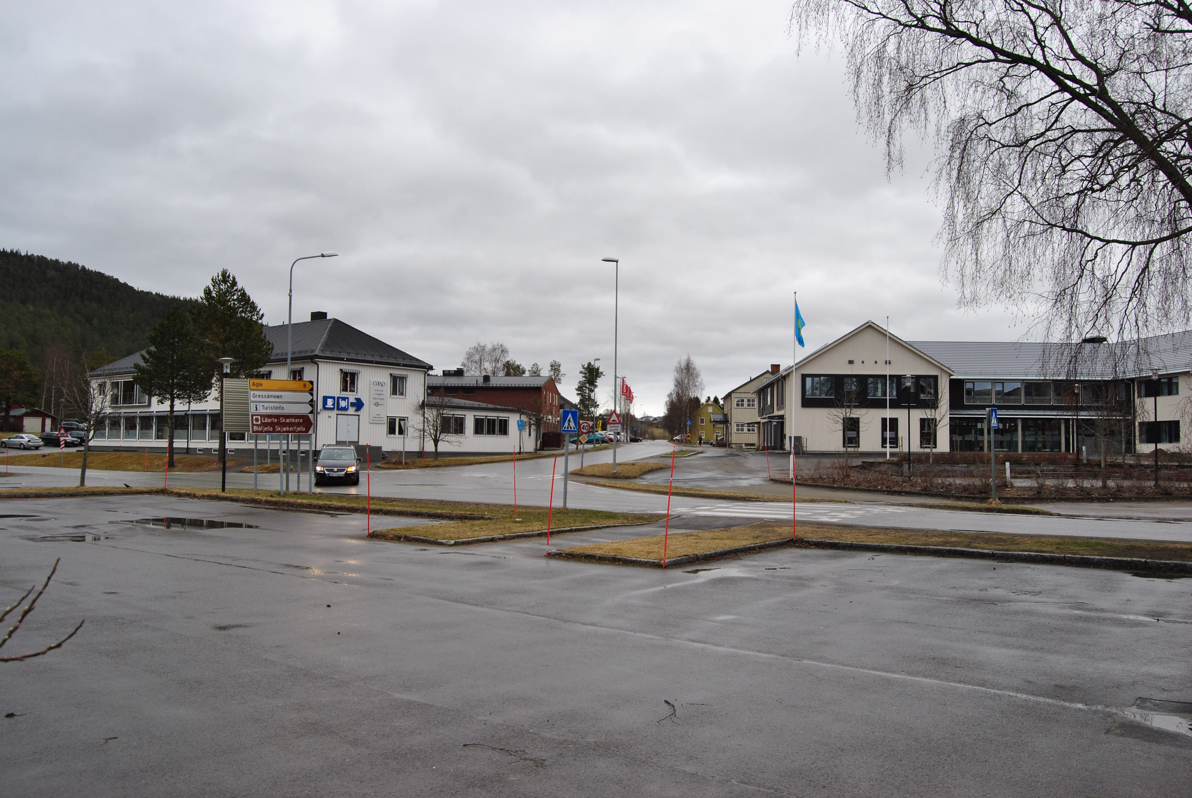 Snåsa, Norway